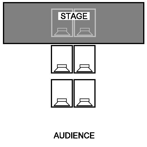 End-fire subwoofer array, shown with six subwoofers arranged in three rows. The audio signal going to each row is delayed a few milliseconds relative to the row behind it. This subwoofer array can be used to lessen bass energy on stage, to keep low frequency "mud" out of concert microphones. The subwoofers can be tucked further under the stage, or extended further out toward the audience, as is practical for each installation. The physical space required for this method is one of its greatest limitations.